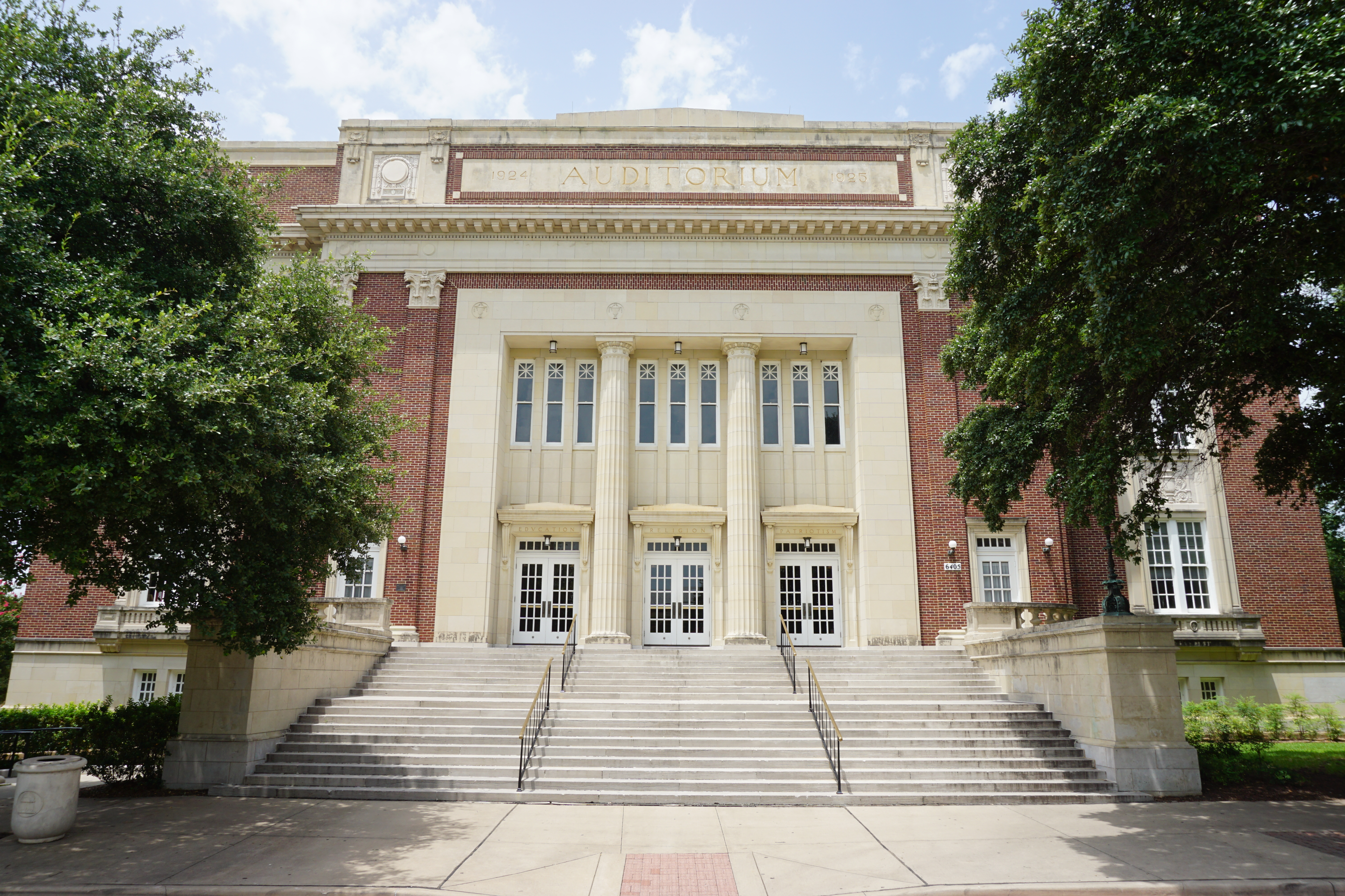 McFarlin Auditorium on the campus of Southern Methodist University in University Park, Texas (United States).